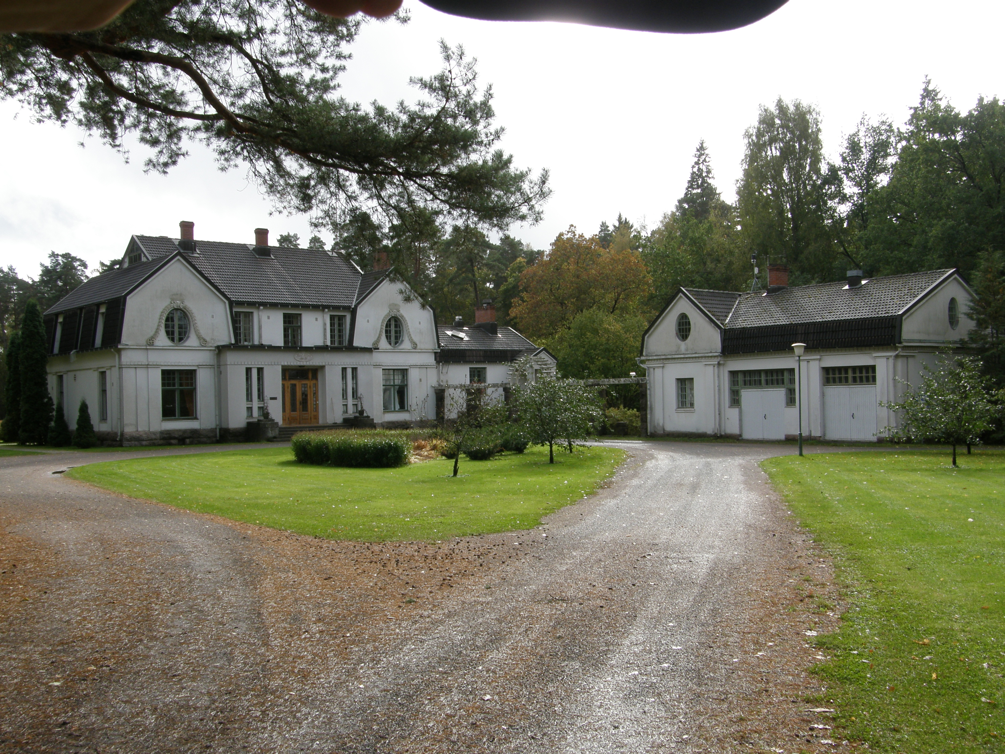 Villa Ahlstrom in Kauttua village in Eura, Finland